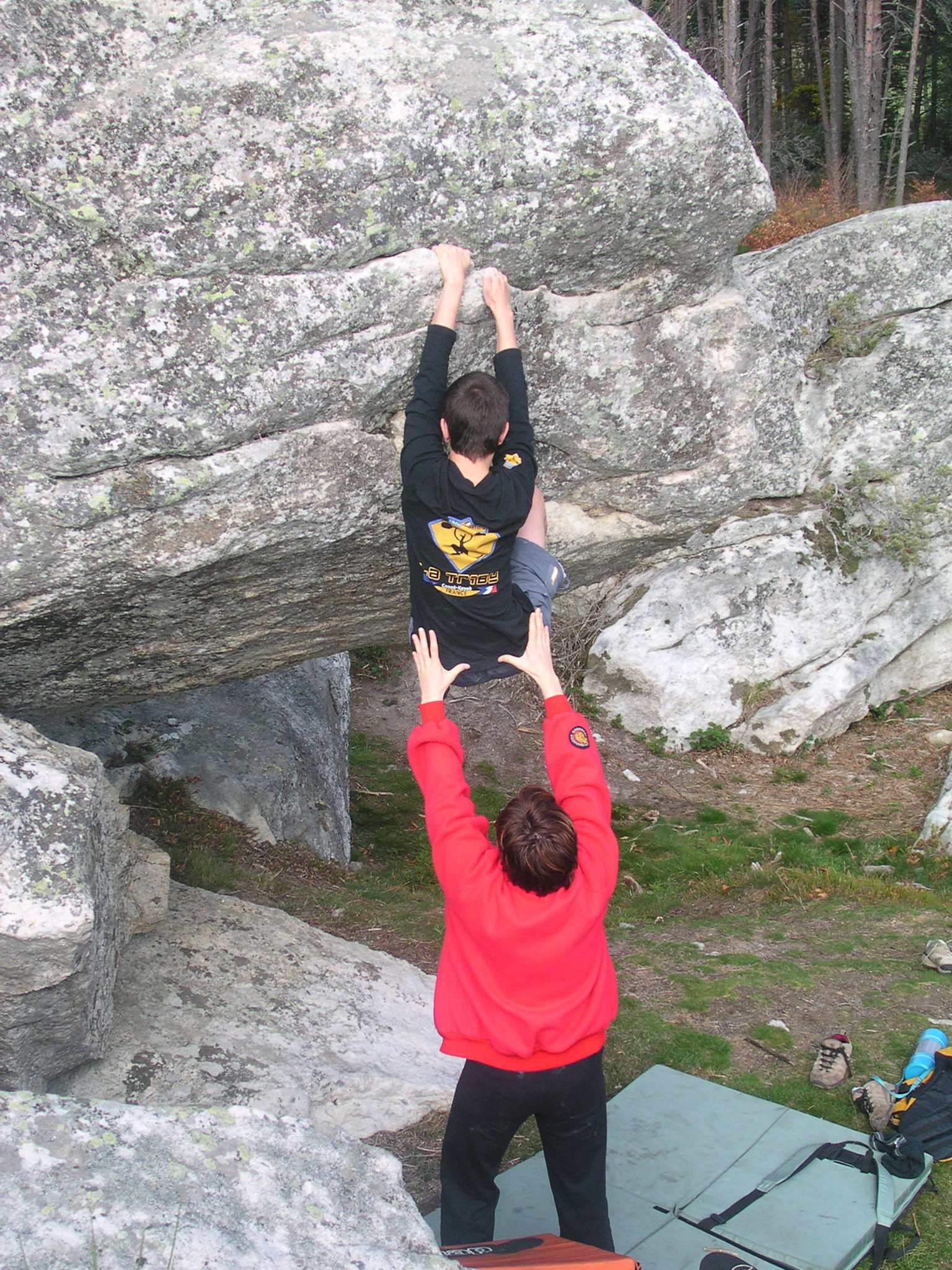 Bouldering (rock climbing) : protection (Saint Just, departement of Cantal, France) Photographie/picture prise/taken par/by Romary Octobre 2005